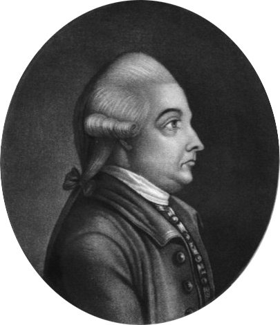 Jonathan Carver (April 13, 1710 – January 31, 1780) was an American explorer and writer. He was born in Weymouth, Massachusetts and then moved with his family to Canterbury, Connecticut.